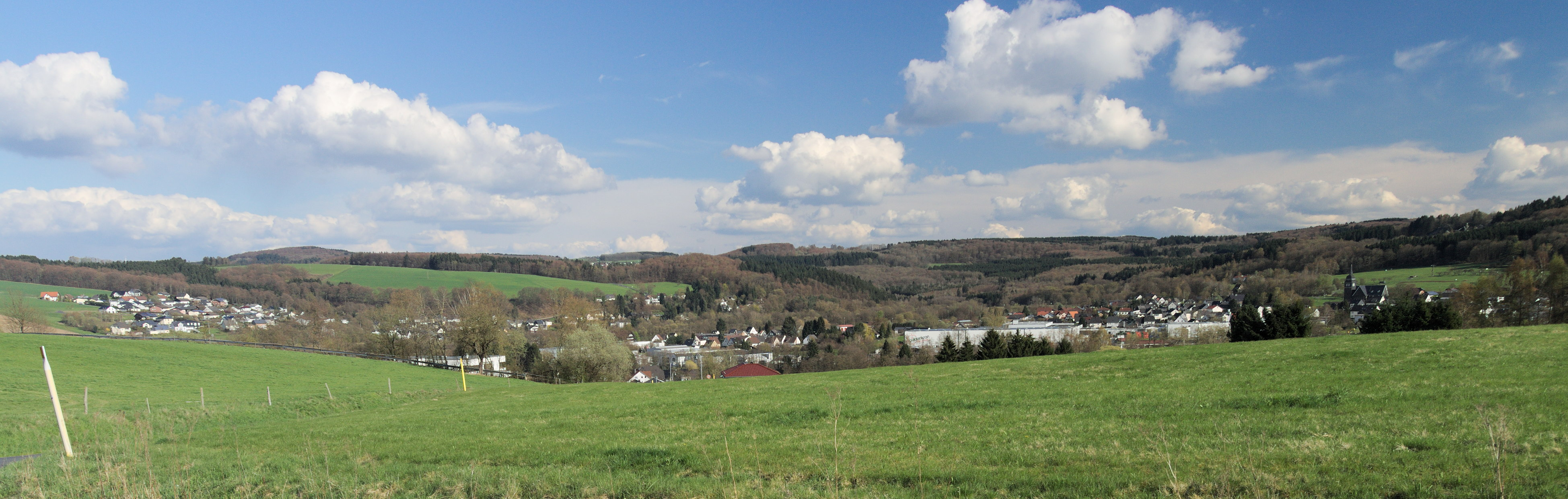 Panorama of village Nistertal (center and right) and parts of Hirtscheid (left) in Westerwald, Germany